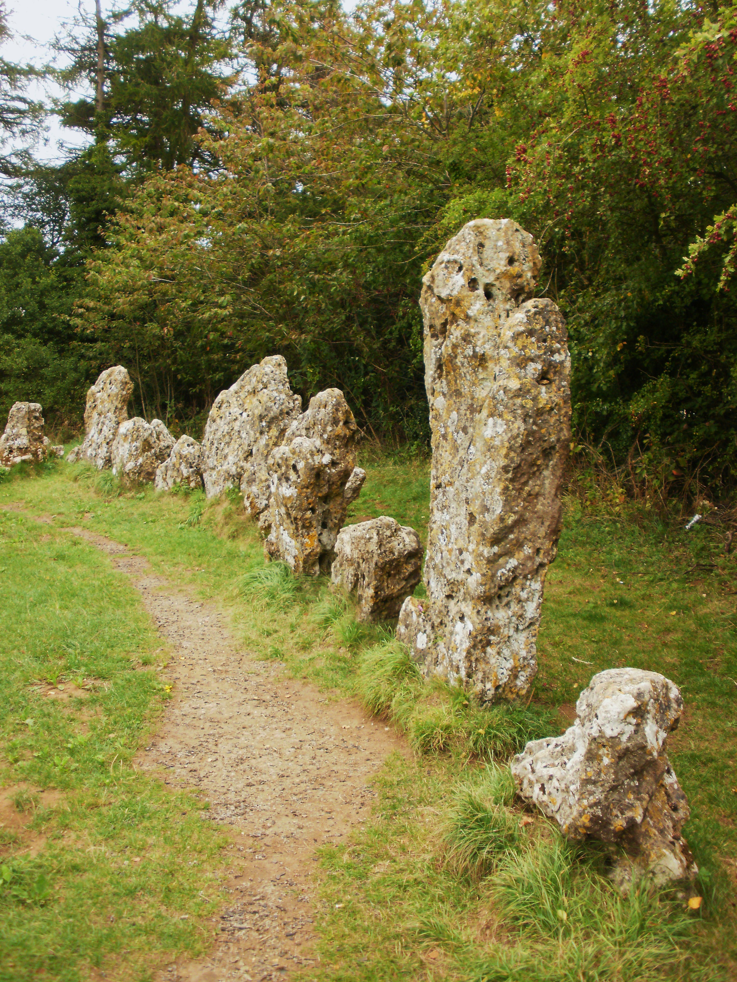 Part of the Neolithic stone circle known as "the King's Men" at the Rollright Stones in England.